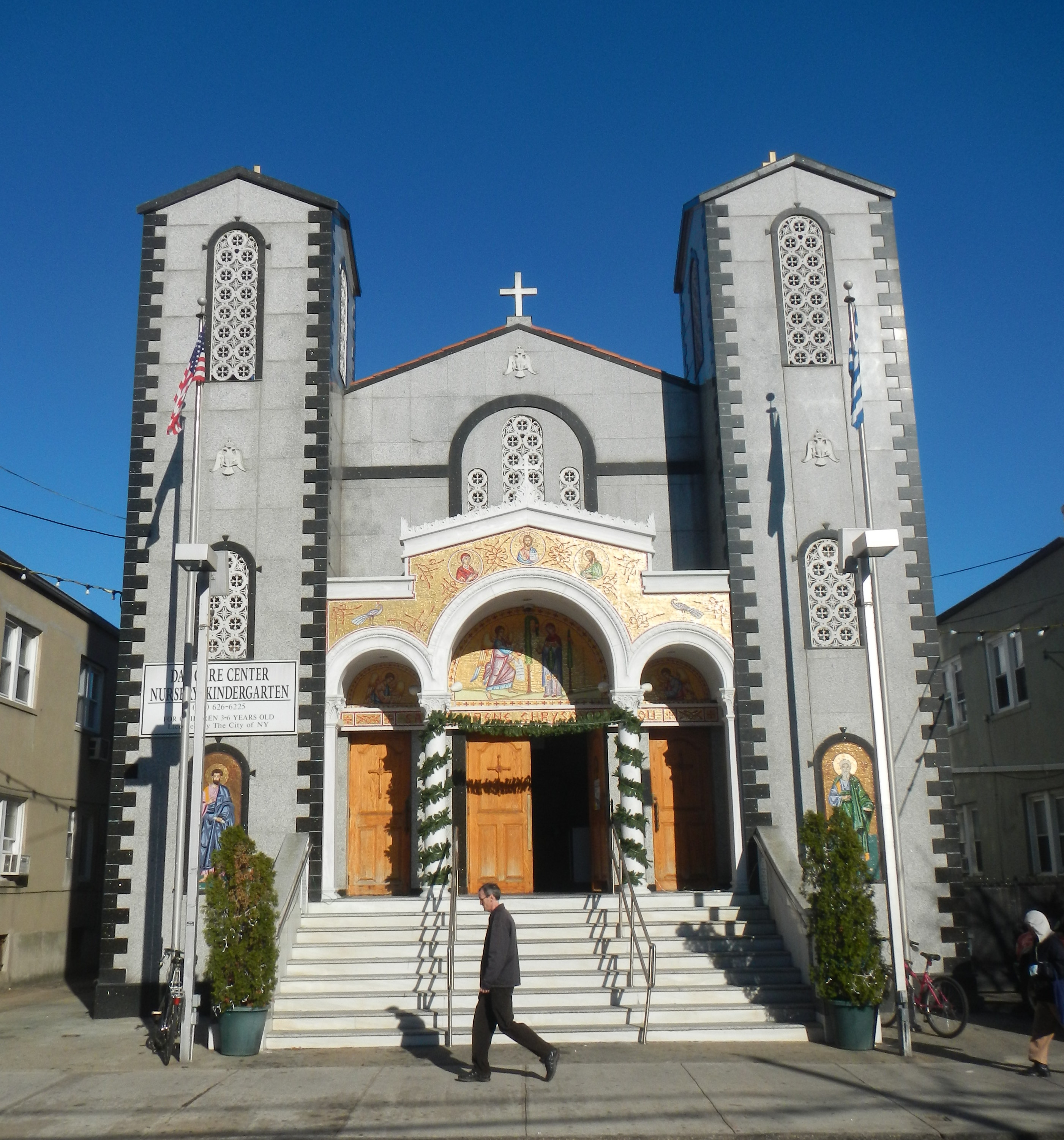 Looking north at church on a sunny day.